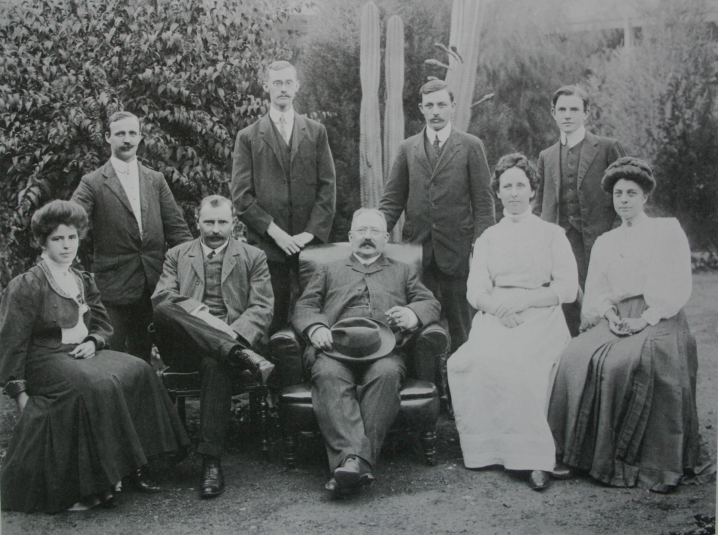 Staff of the Transvaal Museum in March 1909. Standing. left to right, Thomas Jenkins, Alwin K. Haagner (superintendent of the National Zoological Gardens), Fred O. Noome (taxidermist) and A. S. Kea. Seated, left to right, Ms. M. Collins, C. J. M. Swierstra (assistant director), Dr. J. W. B. Gunning (director), Miss R. Leendertz (botanical assistant) and Ms. S. Viljoen